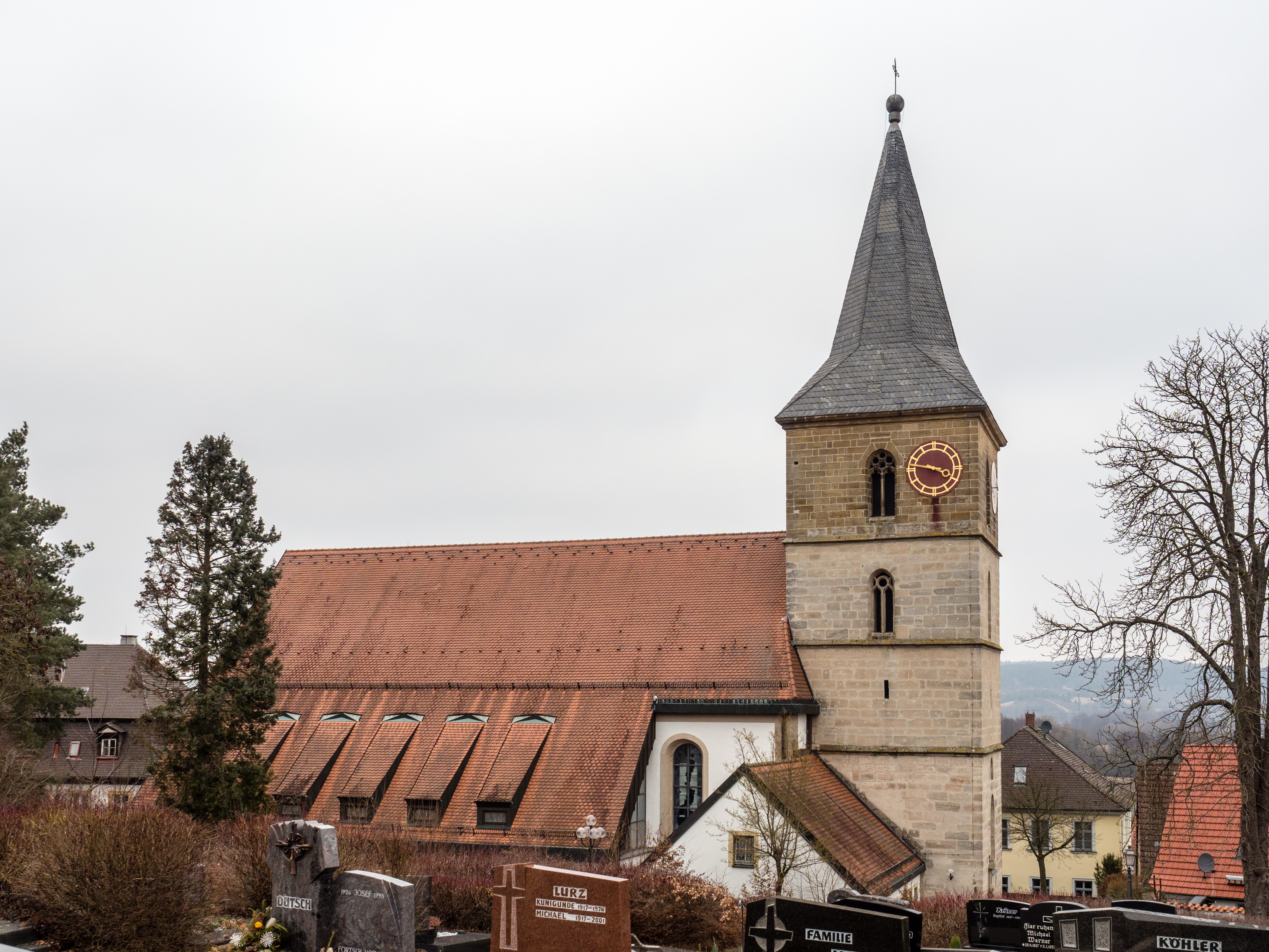 Catholic Parish Church St. Mark in Bischberg near Bamberg